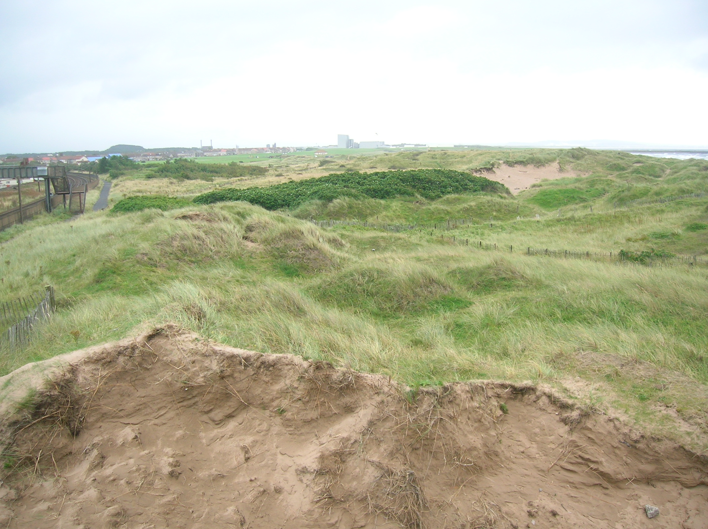 Stevenston Beach LNR with a 'blow out' and a dark patch of alien Rosa rugosa, North Ayrshire, Scotland.